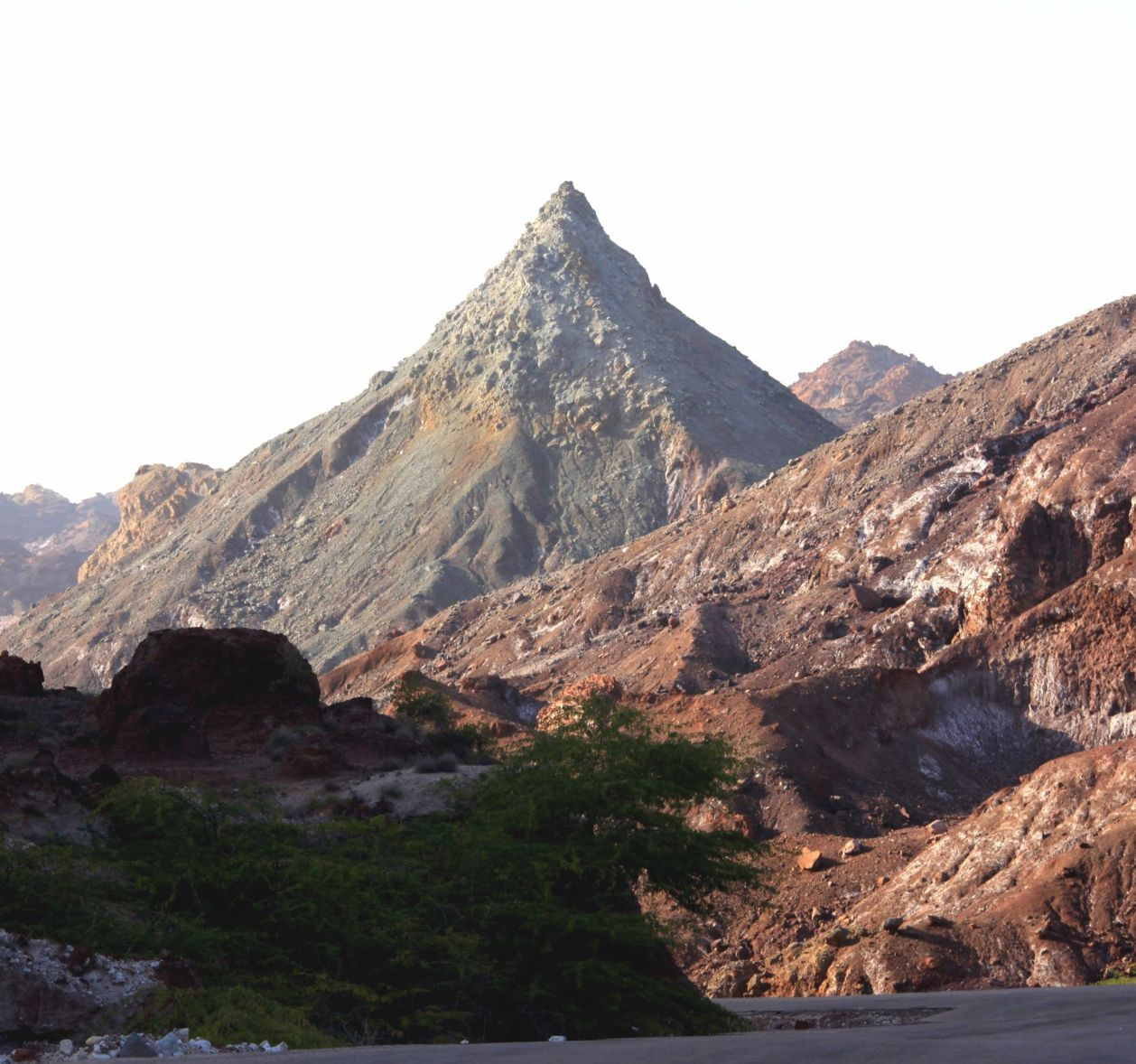 Hormoz Island, Persian Gulf, Iran